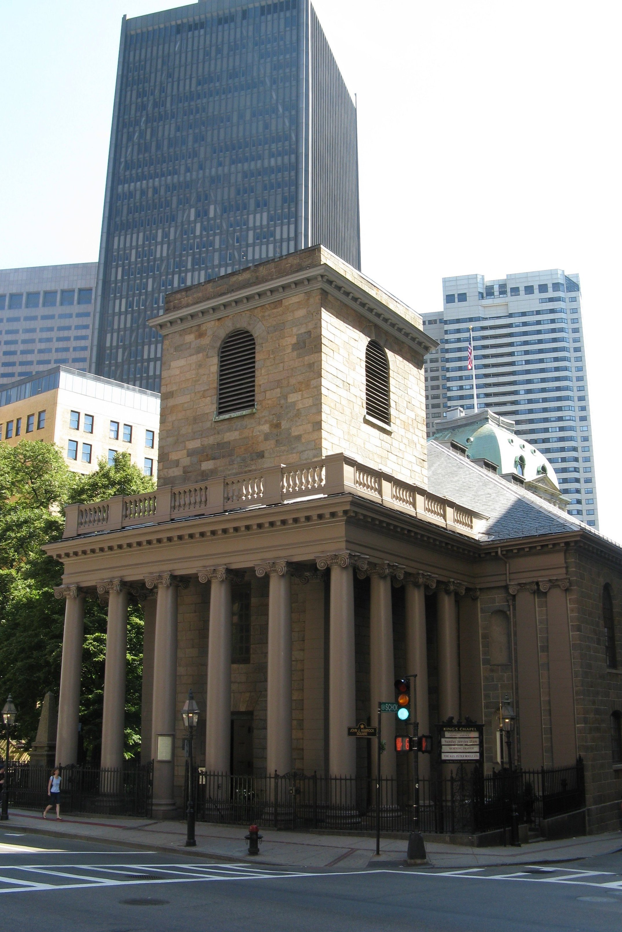 King's Chapel, Boston Massachusetts